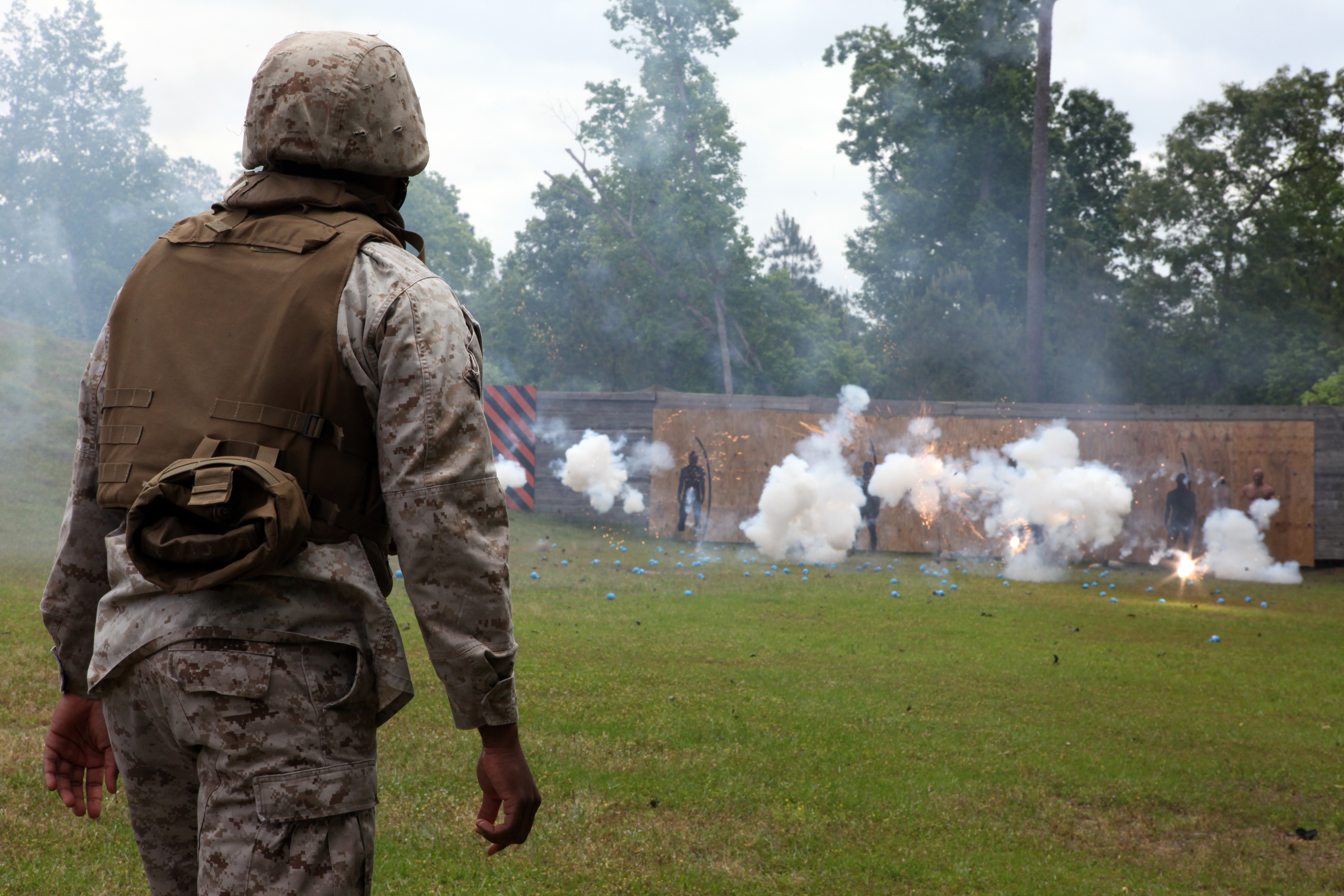 A U.S. Marine from the ground combat element for Security Cooperation Task Africa Partnership Station 12 (APS-12), watches the effectiveness of the sting-ball and multi effect grenades after throwing one down range during non-lethal weapons training aboard Stone Bay, N.C., April 23, 2012. This training is part of APS-12's special operations capabilities certification in support of their upcoming deployment to Africa.